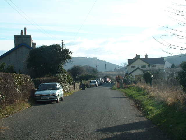 Glanwydden. Looking SE towards the village centre